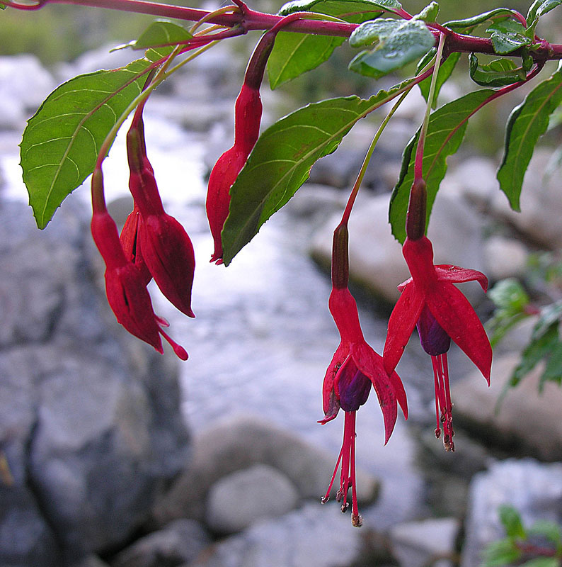 The Magellanic Fuchsia or Chilco of southern Chile and Argentina. Here near Rio Cisnes, Chile. In context at